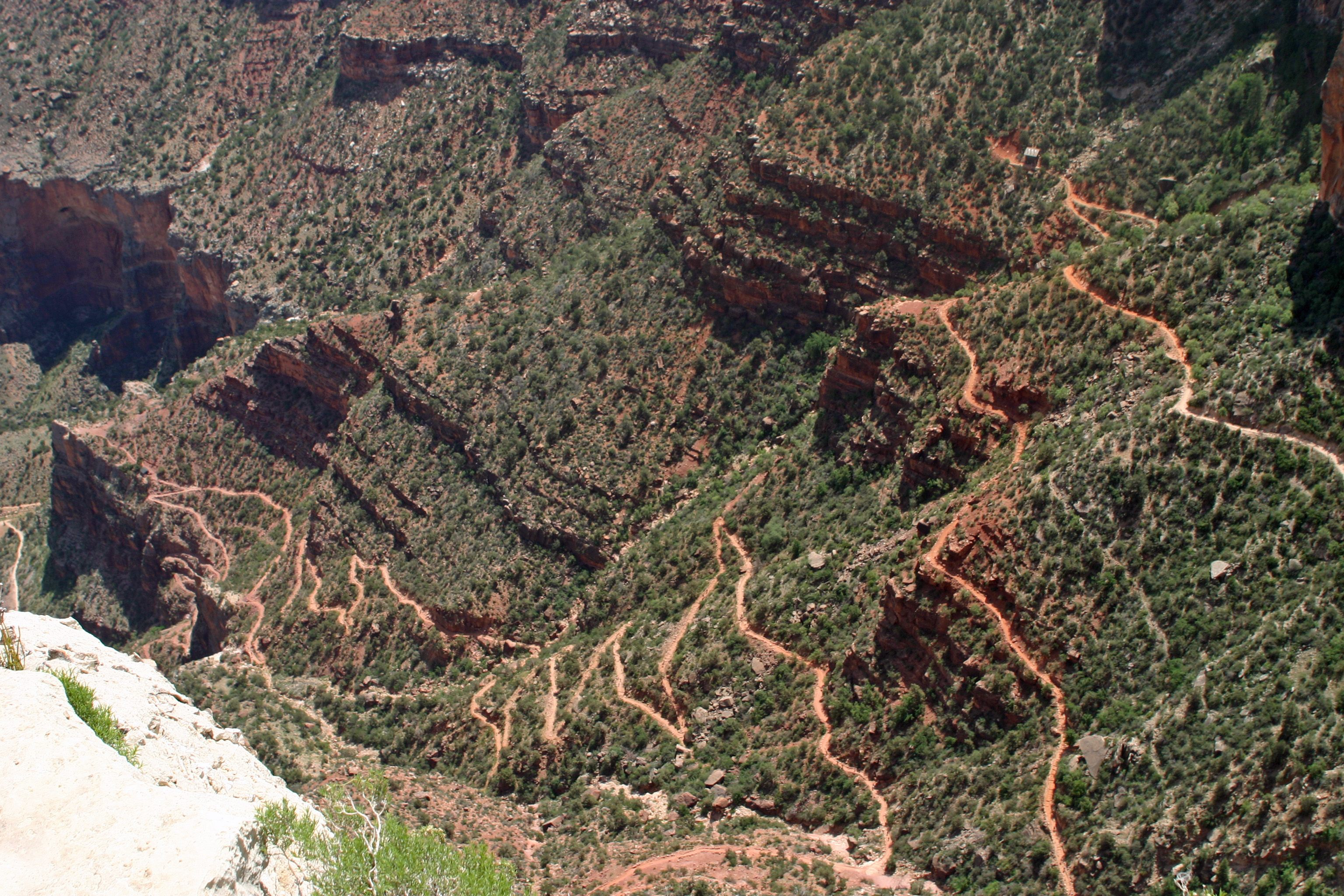 Bright Angel Trail switchbacks, taken from the south rim of the Grand Canyon.